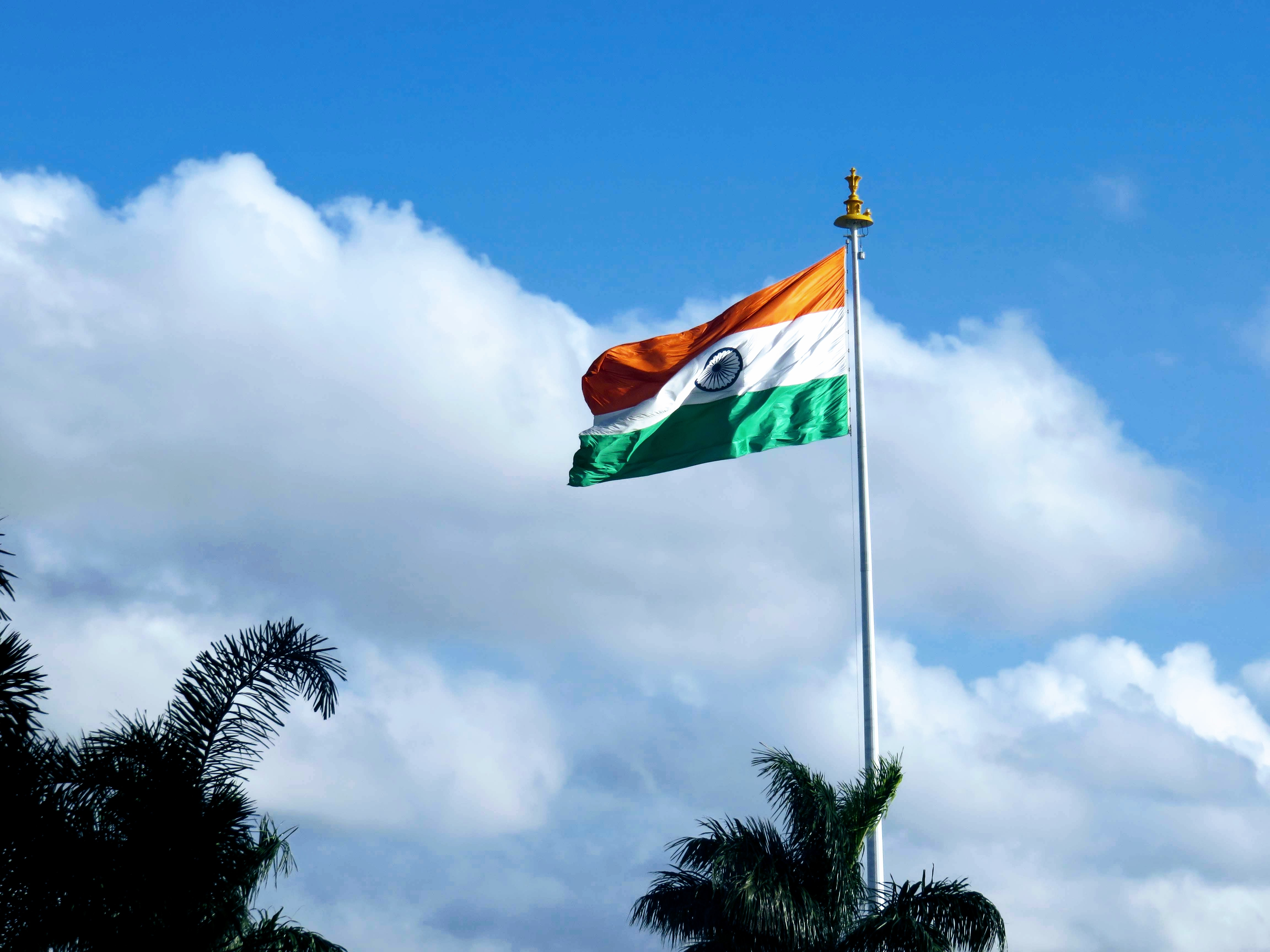 Indian national Flag at Kempegowda International Airport, Bengaluru